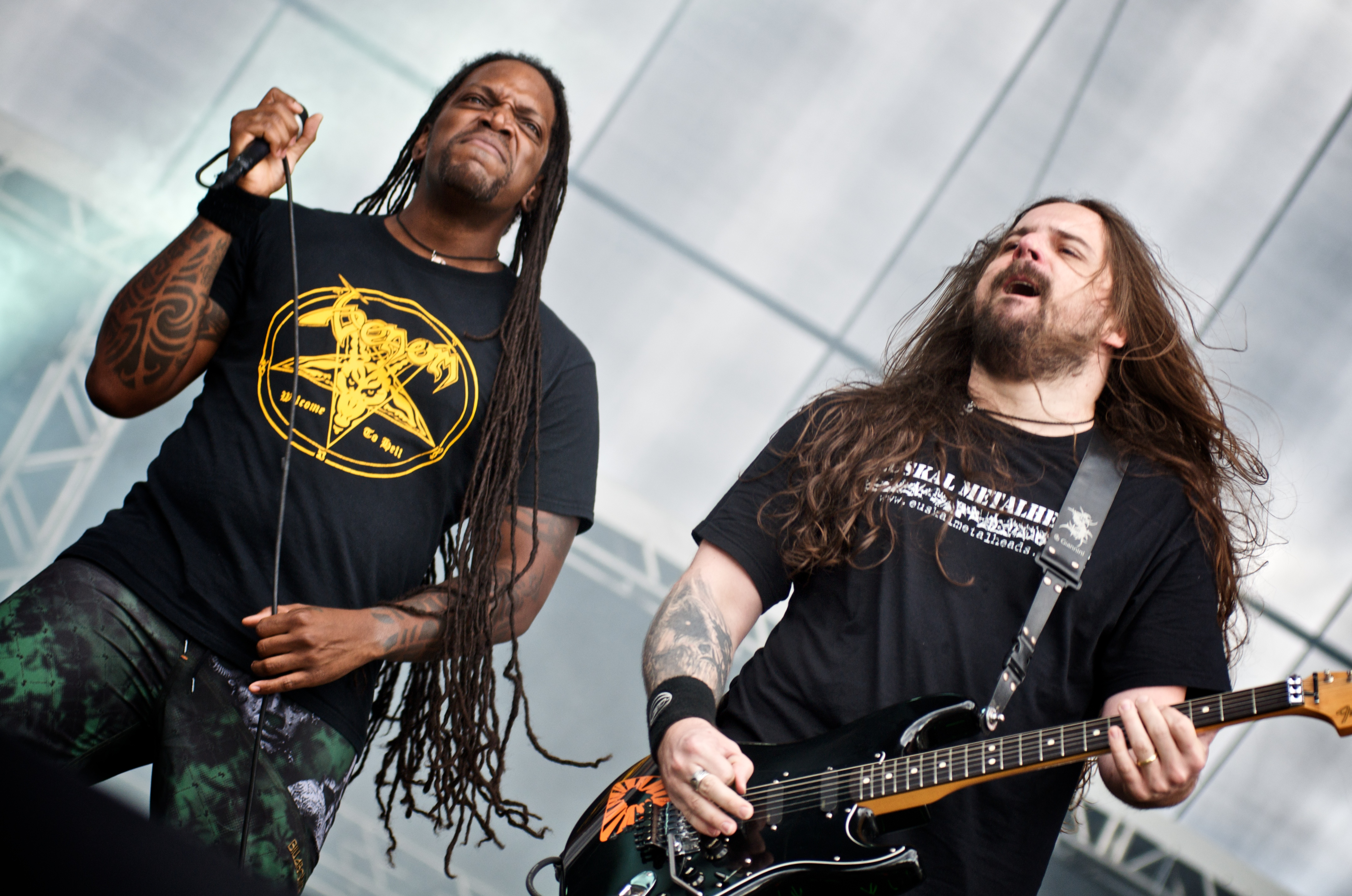 Sepultura in Maquinária Festival, occurred in November 7 2009 at São Paulo, Brazil.